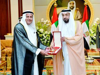 AlQazSheikhKhalifaAward